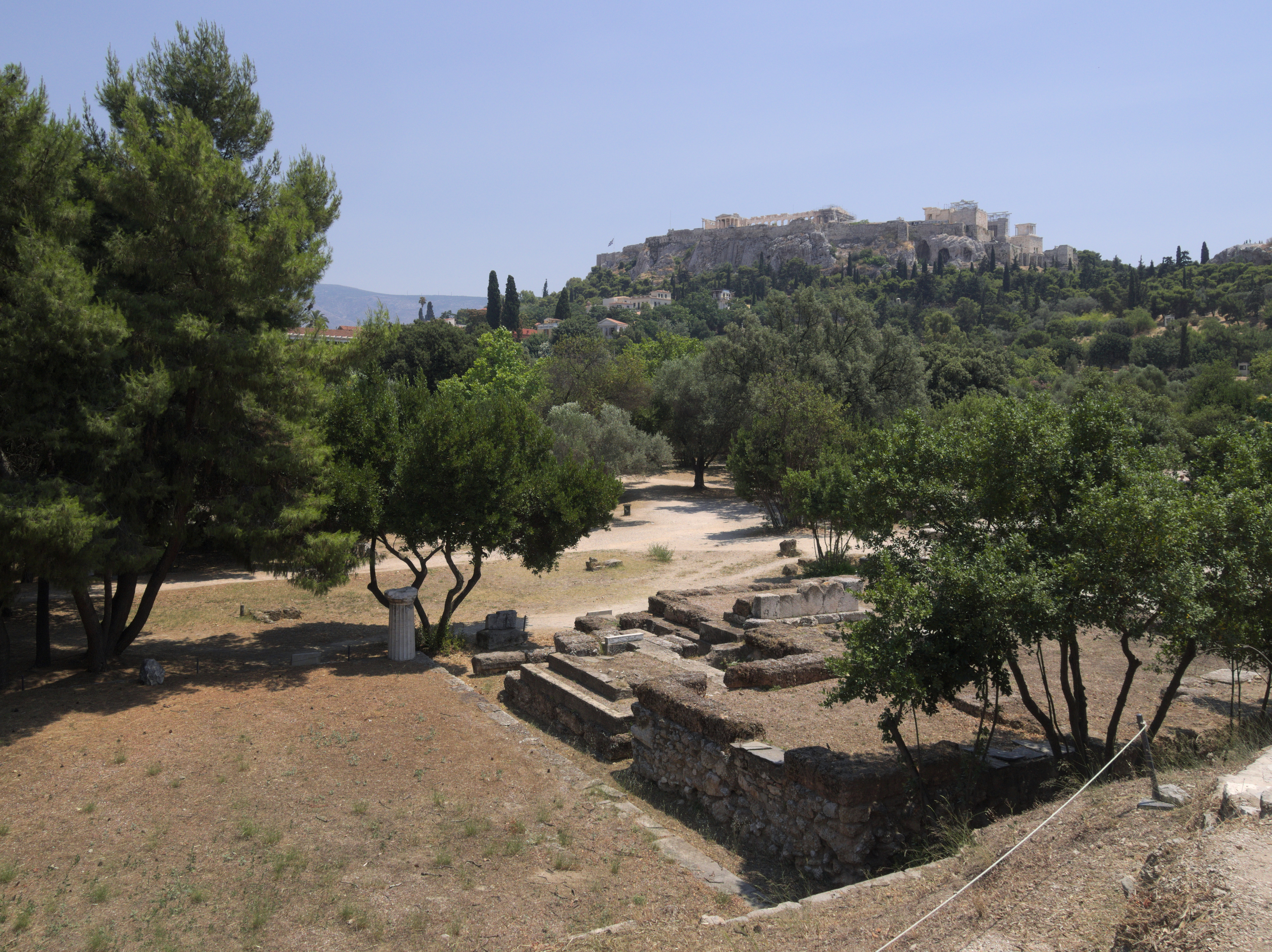 View of the Ancient Agora and the Acropolis of Athens from the temple of Hephaistos.